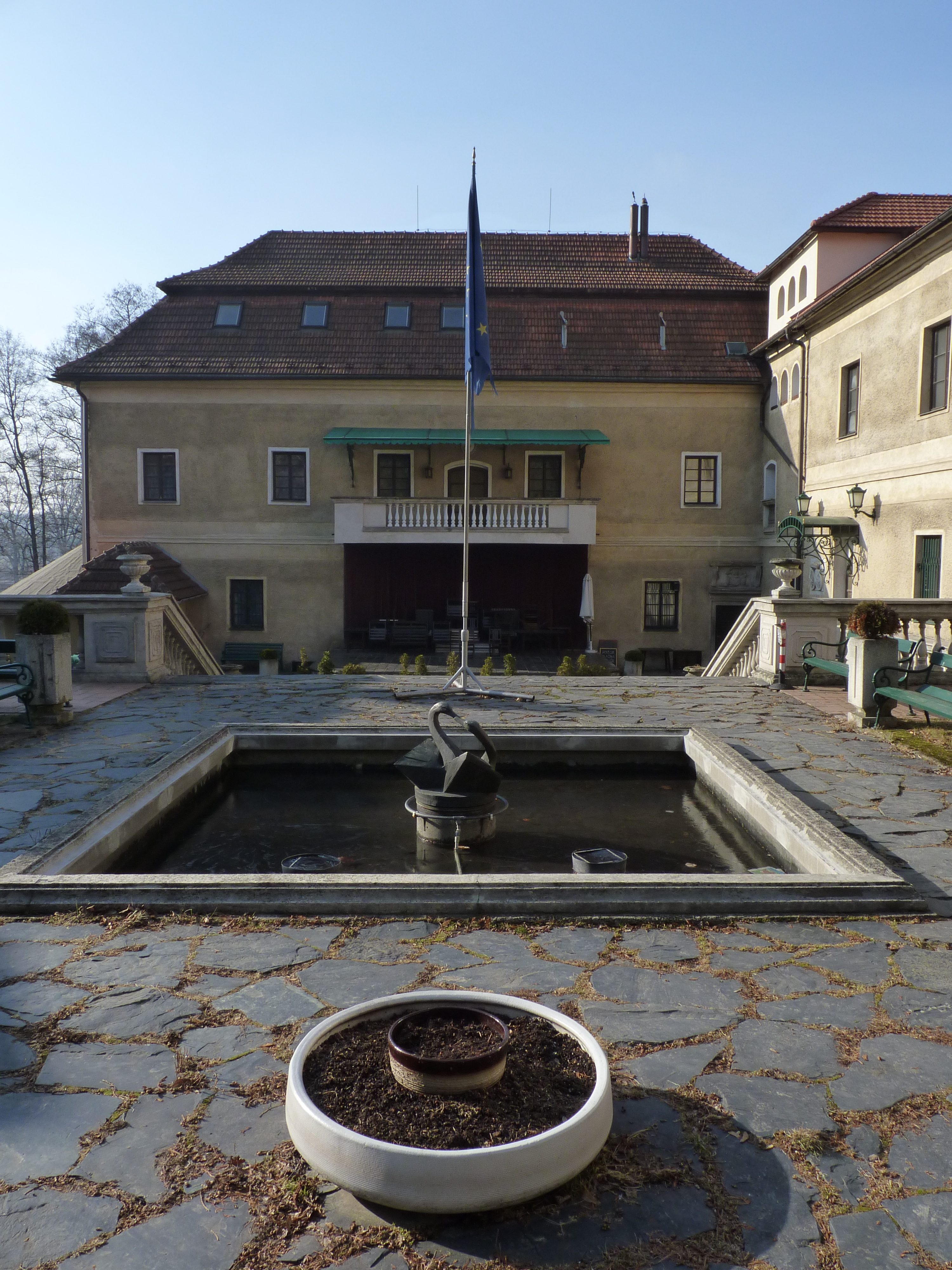 Castle in Ostrava-Poruba. Ostrava-city District, Moravian-Silesian Region, Czech Republic